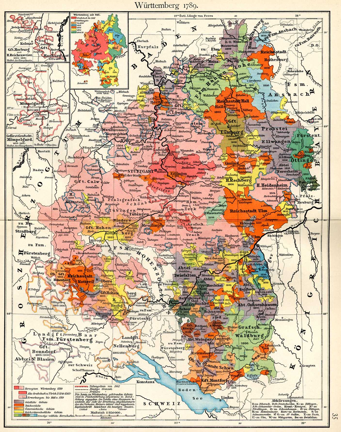 Territorrial situation in the lands subsequently annexed by Württemberg, 1789